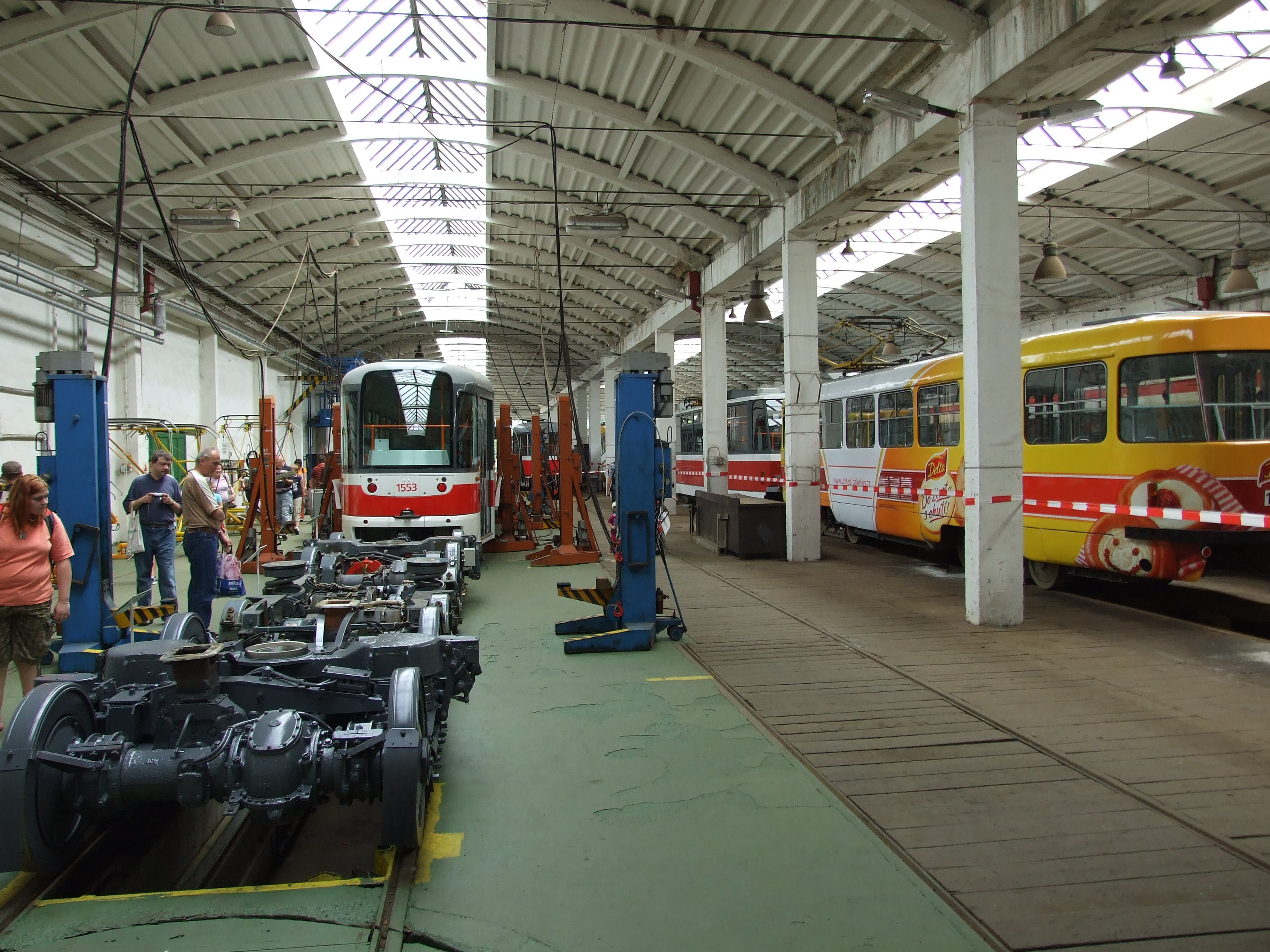 Inside the Medlánky tram depot in Brno, CZhelp